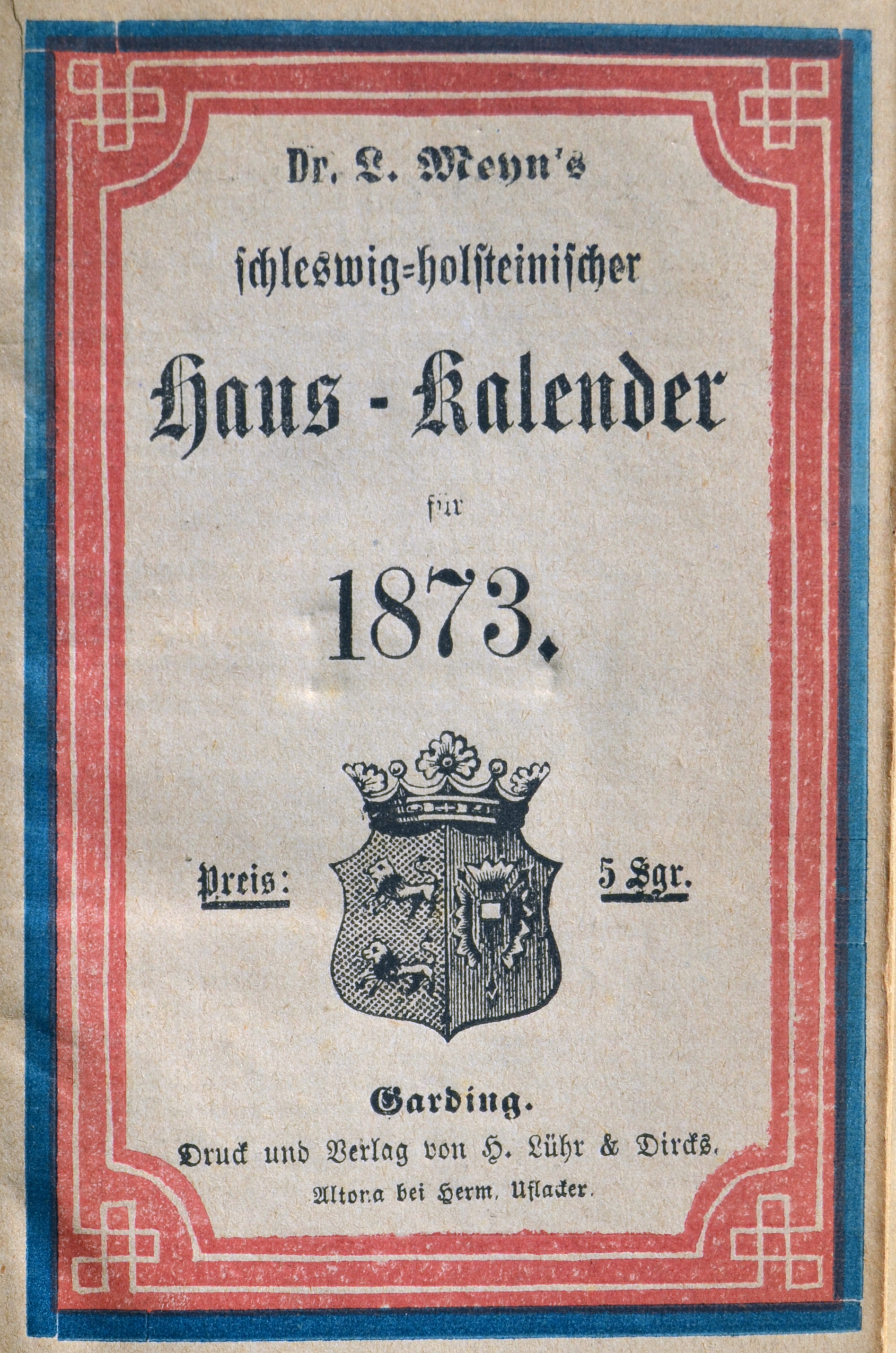 German agricultural scientist, soil scientist, geologist, journalist and mineralogist. He was the pioneer of oil production.